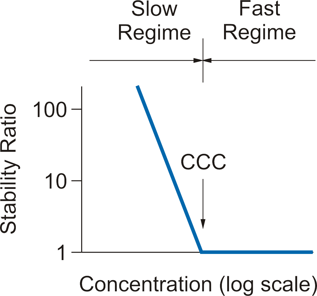 Scheme of a stability plot for the particle aggregation page